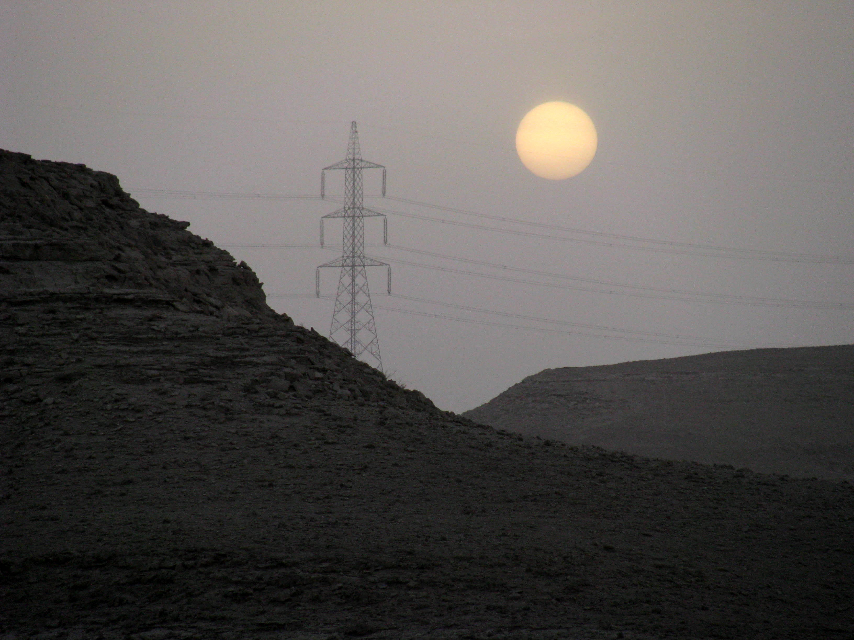 Near sunset over some of the ubiquitous power lines in the desert near Riyadh